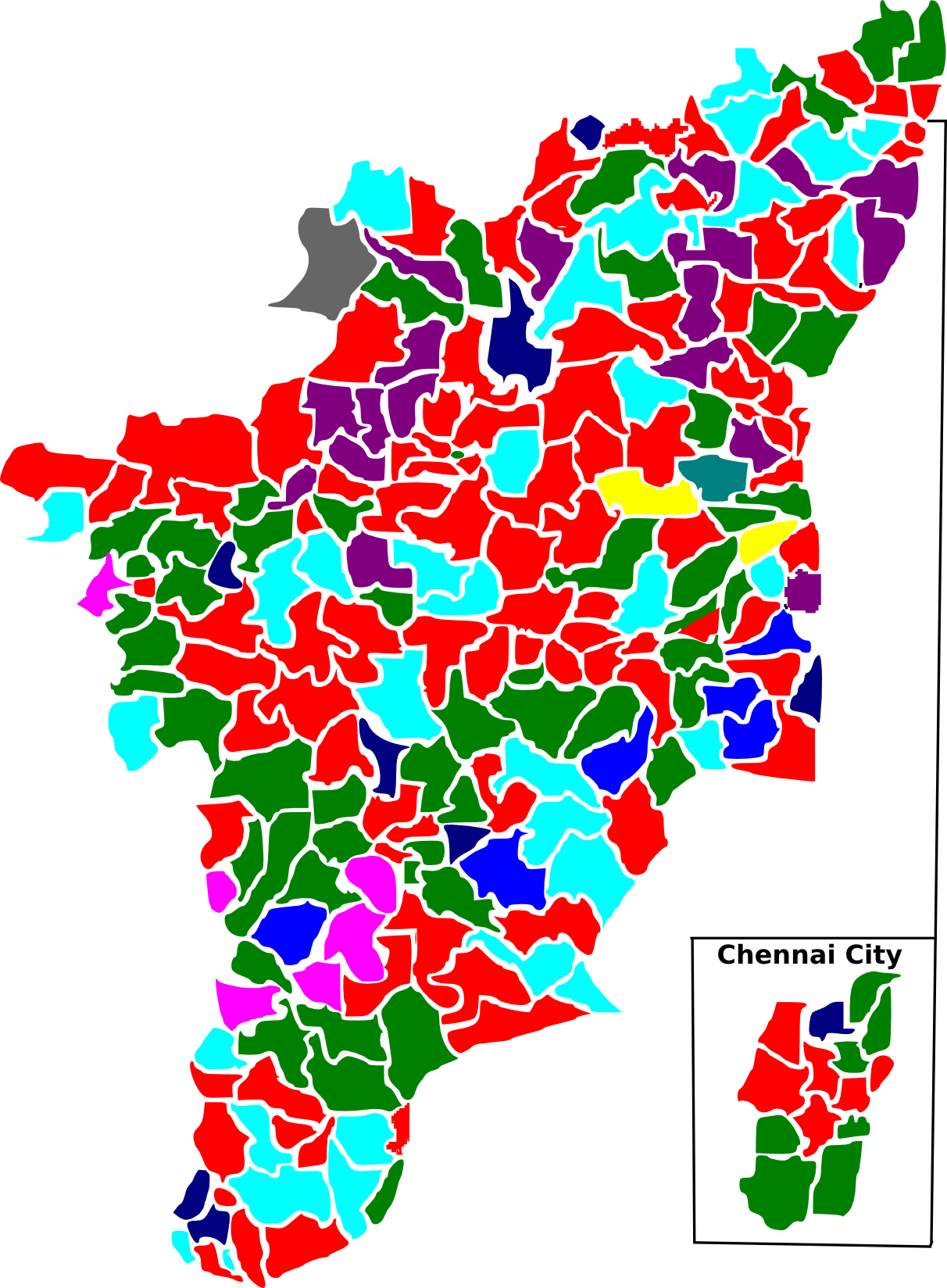 made election map using borders from ECI website using Inkscape. Results based on ECI website.